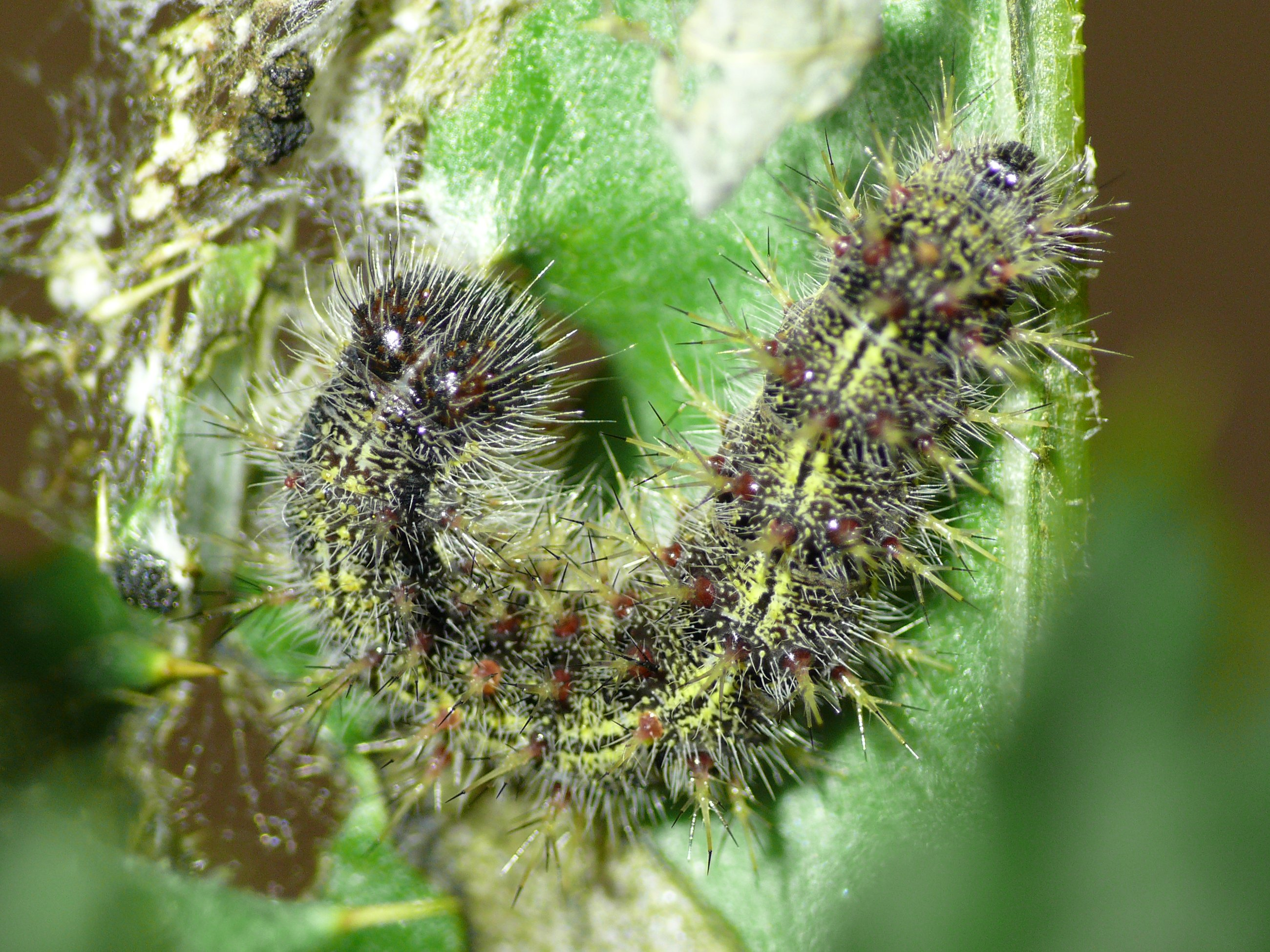 Caterpillar aof Painted Lady